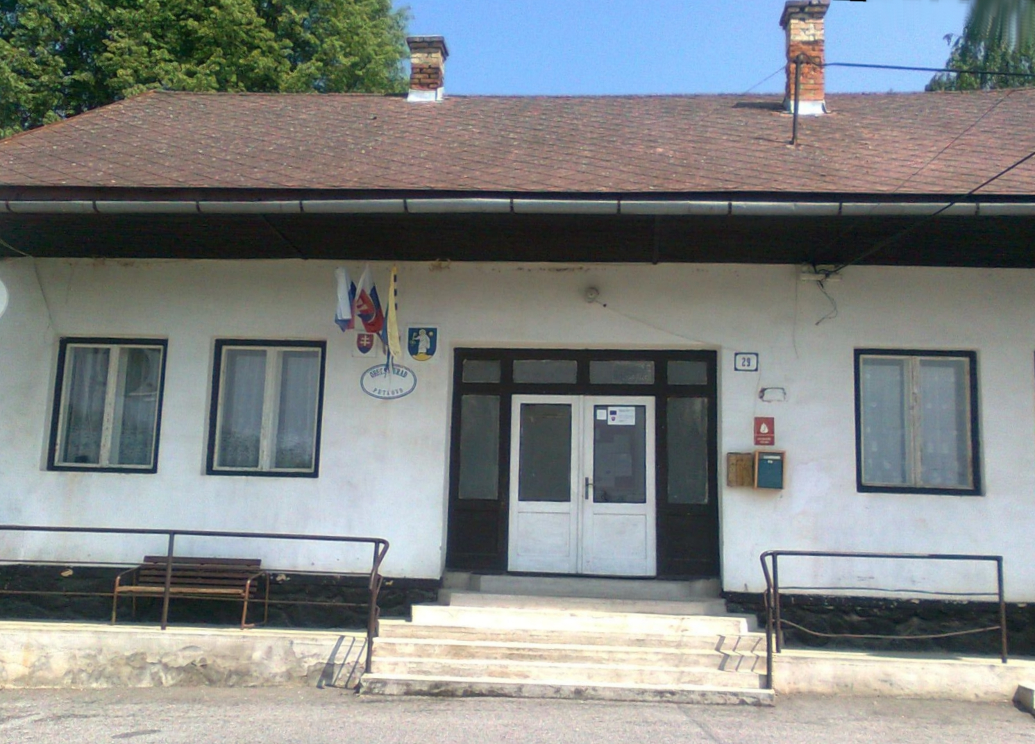 Slovakia, municipal ofice in vilage Petrovo